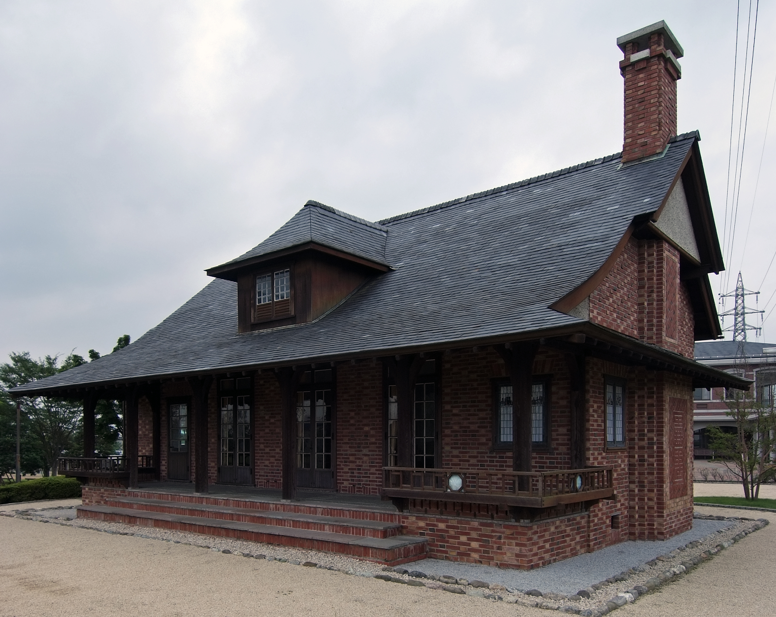 Seishido, Fukaya Saitama Japan, designed by Junkichi Tanabe in 1916.Important Cultural Property of Japan in Saitama.